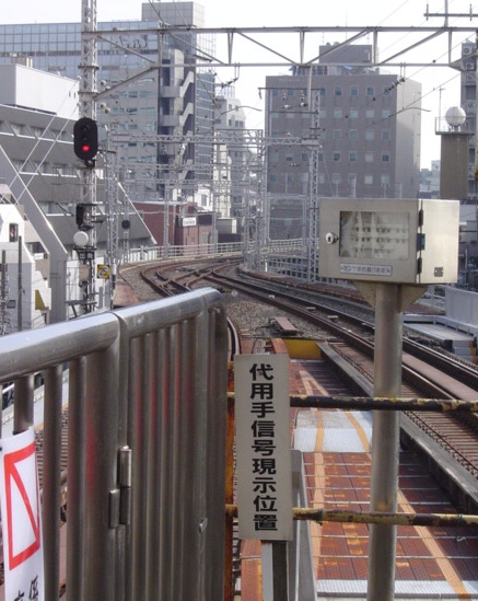 install position for substitute hand signal, Gotanda station, Tokyu Ikegami line